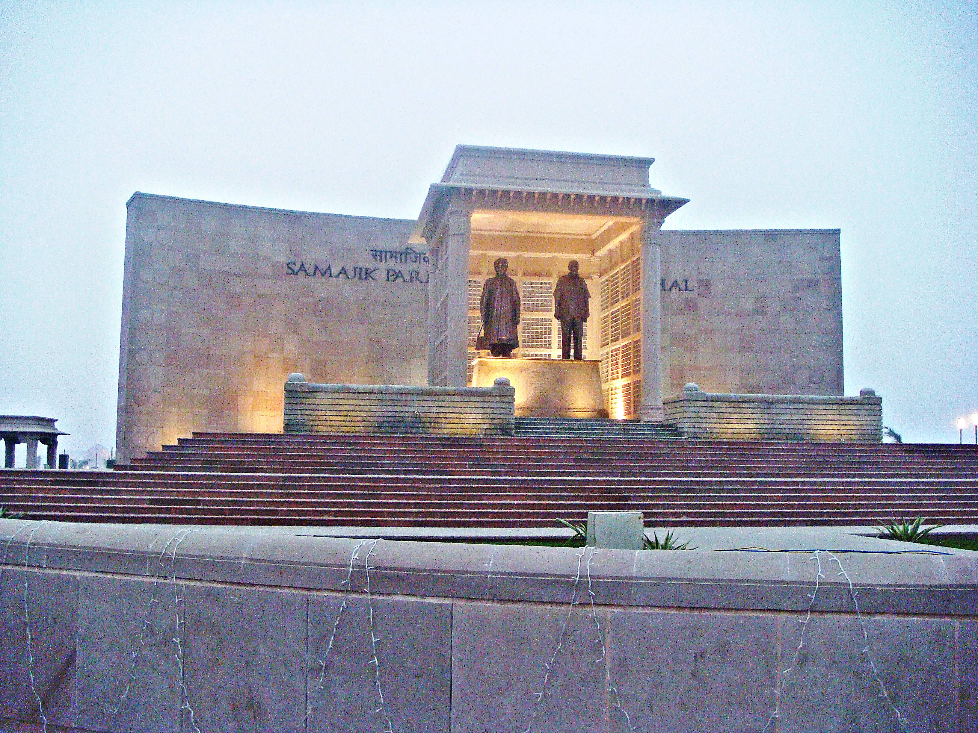 Statues of Mayawati and Kanshi Ram, at the Ambedkar Memorial Park in Lucknow, UP, India